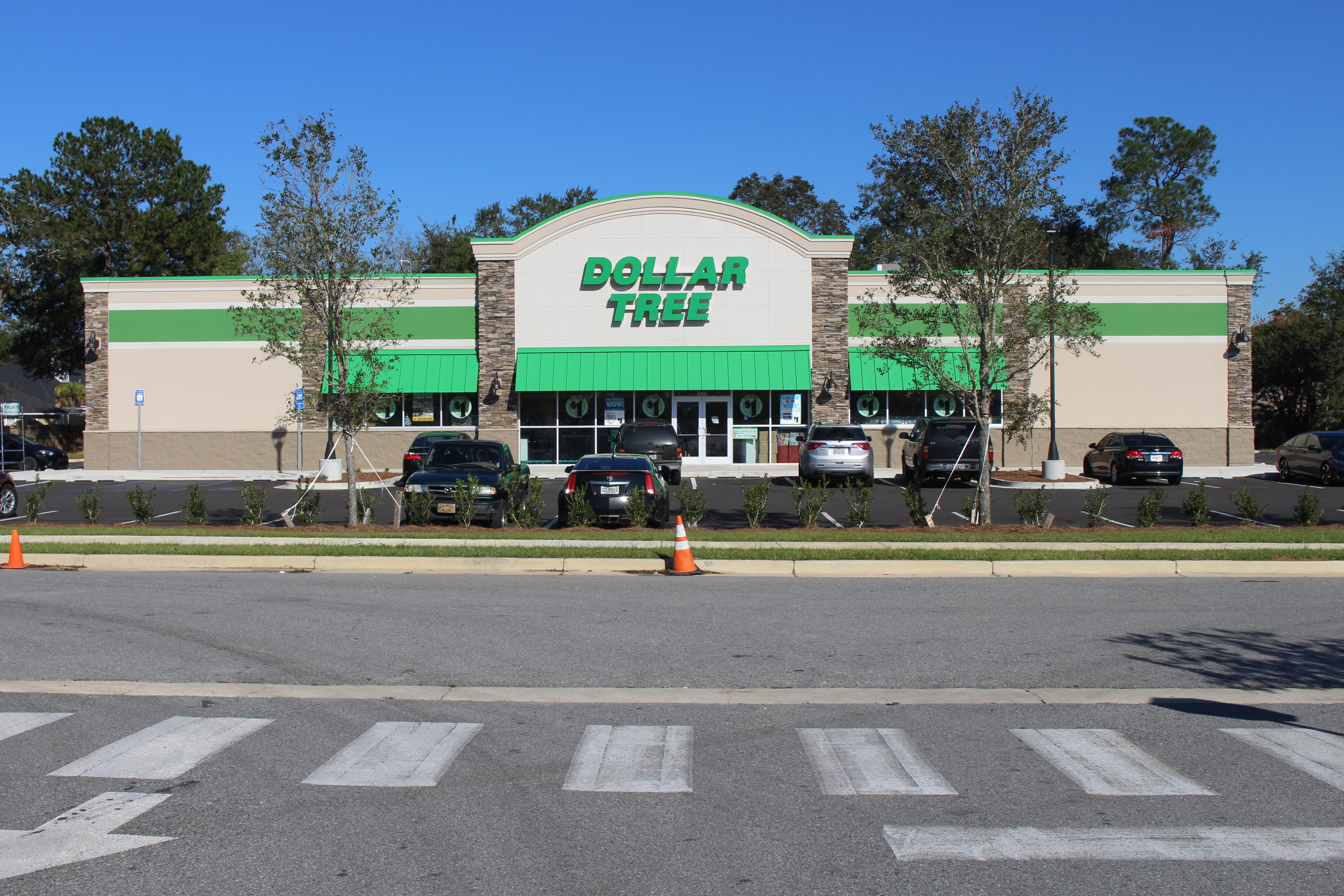 Dollar Tree, Valdosta, Lowndes County, Georgia